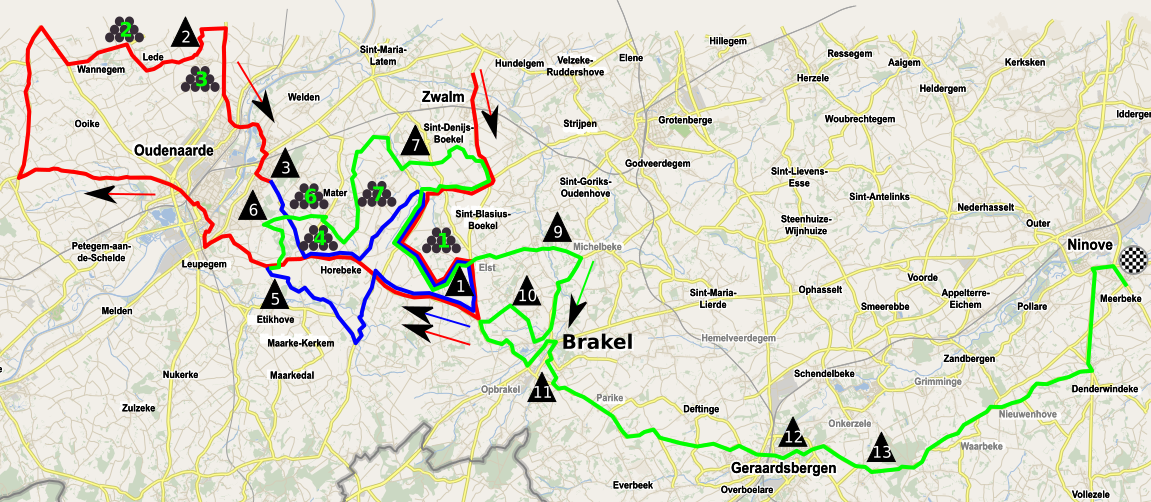 Circuit Het Nieuwsblad 2018, part 2 of the circuit. Reference: Roadmap version 03/12/2017, consulted on official website on 05/01/2018